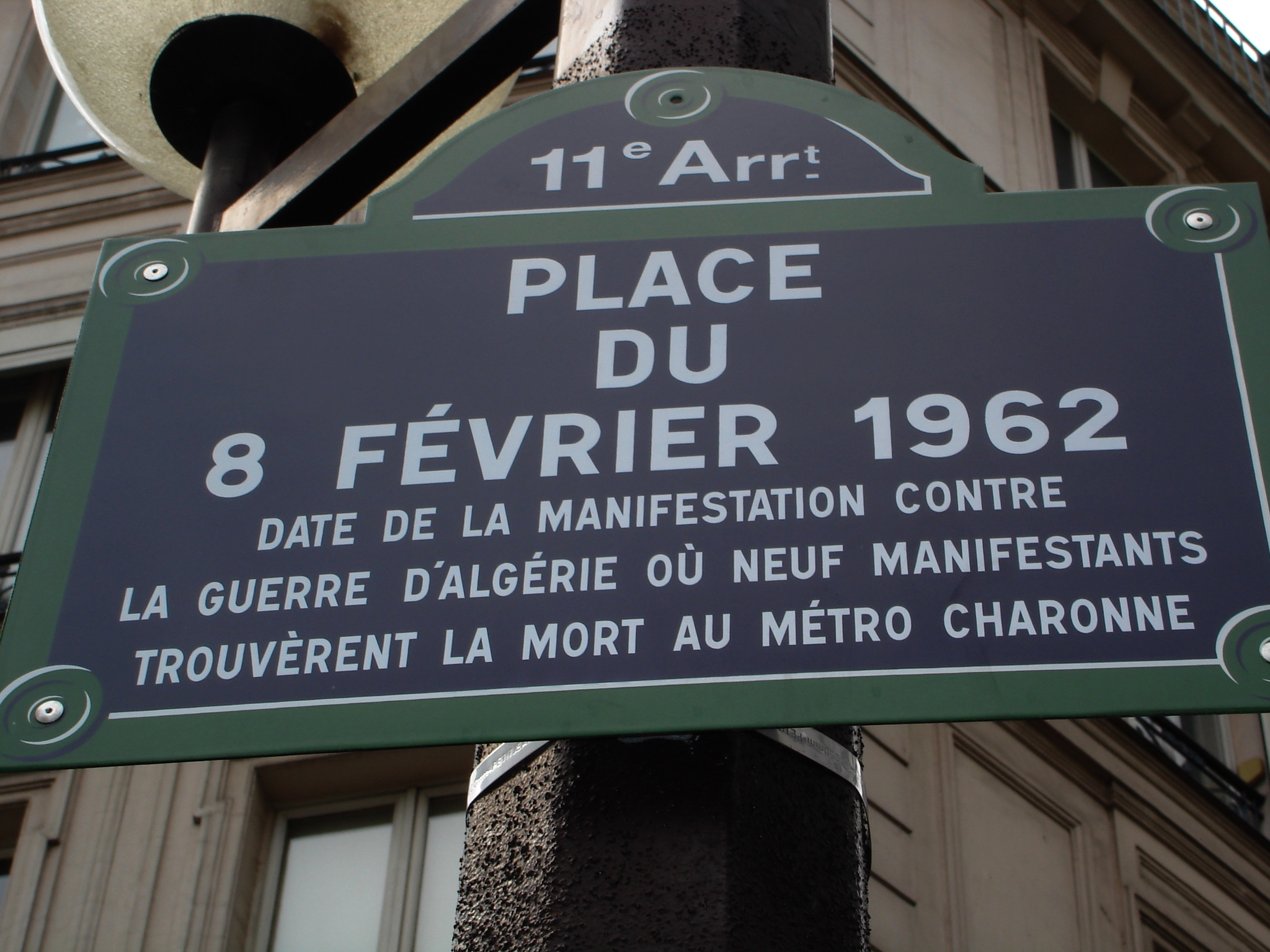 Street sign:"Place du 8 février 1962" at the intersection of Boulevard Voltaire and Rue de Charonne, Paris. This square commemorates the 9 demonstrators who died during a demonstration against the Algerian war, suffocated against the closed grids of the metro.